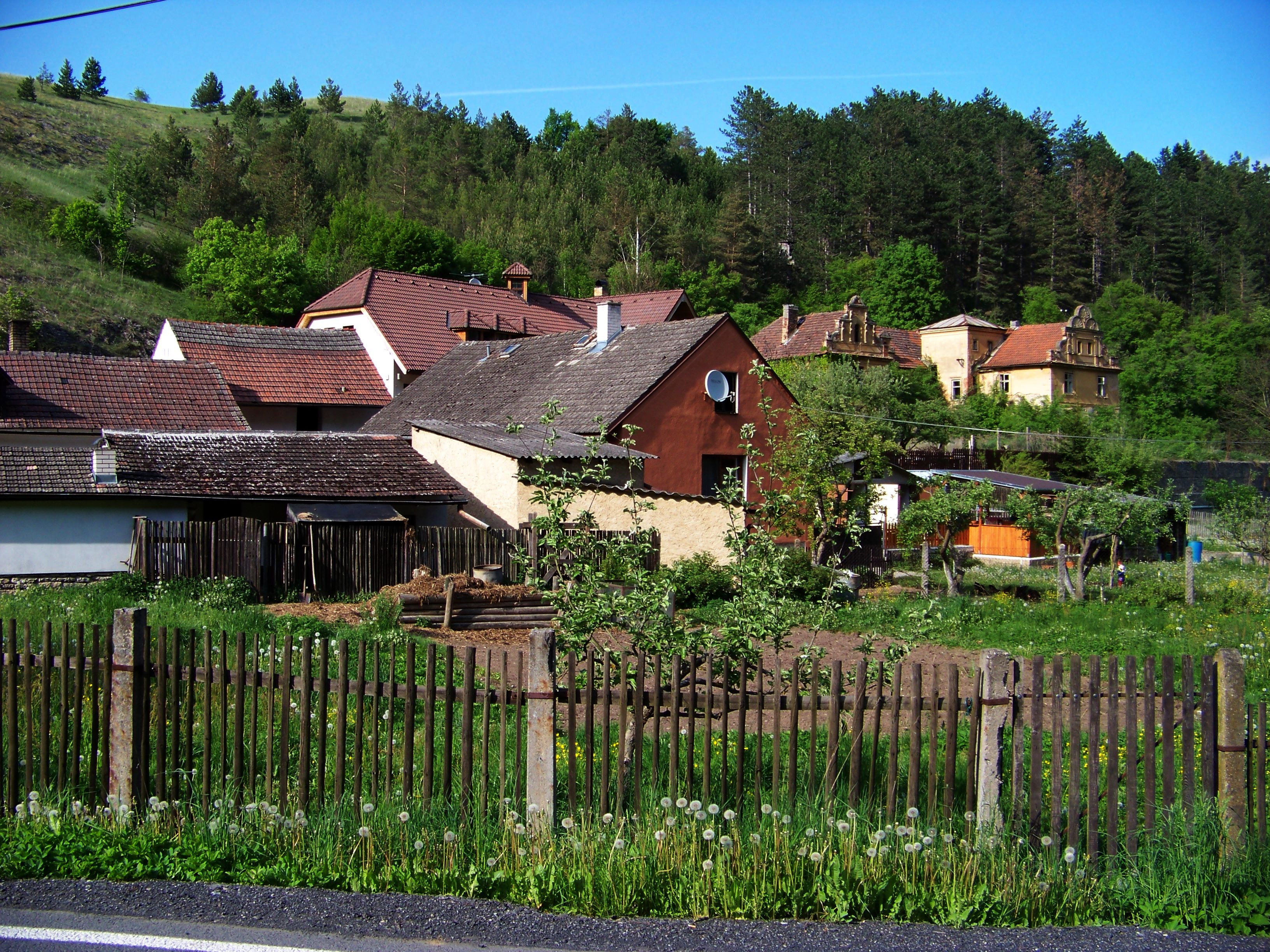 Prague-Radotín, the Czech Republic. Na Cikánce street, Cikánka.